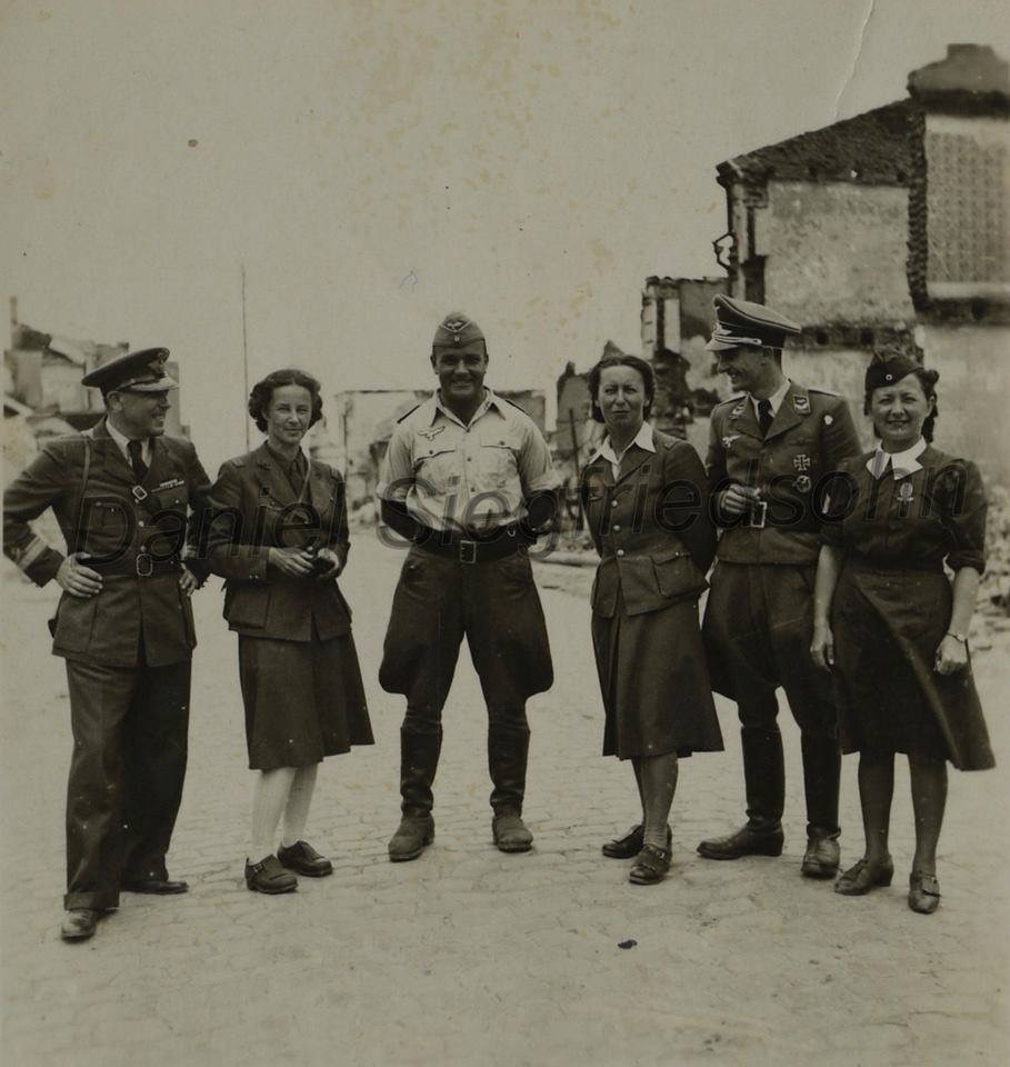 July 1941. Romanian and German pilots. "Bălți, July 1941. Centrer of the city after a raid of bombings. Pilots Nadia Russo and Virginia Thomas, medical aid I. Grădinescu (from Romanian White Squadron - Escadrila Albă), Romanian and German pilots."